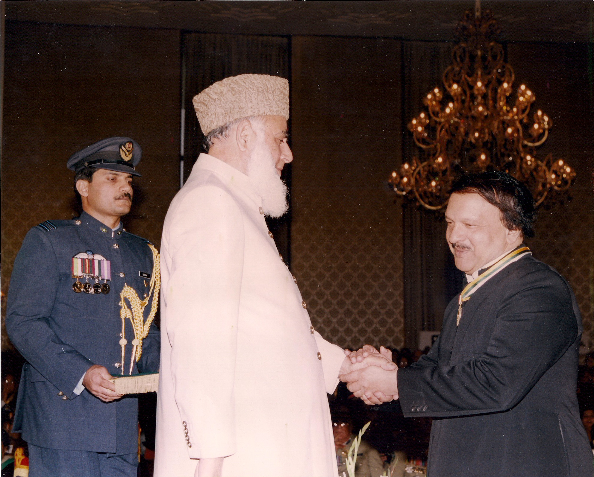 Dr. Amjad Parvez receiving Pride of Performance Award from President of Pakistan on March 23, 2000